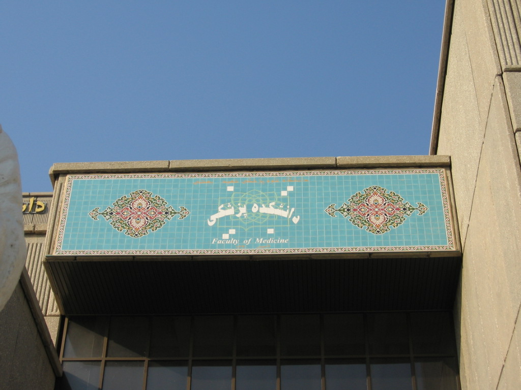 Shahid Beheshti Medical University Southern Entrance